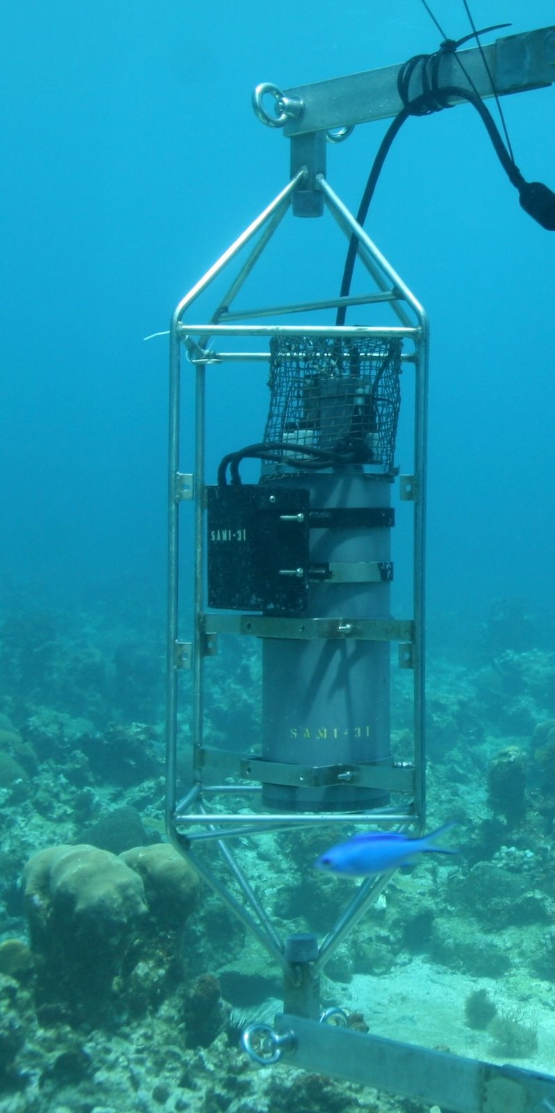 This sensor, attached to a NOAA CREWS station, collects pCO2 and temperature data every hour and transmits it via satellite to a NOAA laboratory where data are utilized in understanding ocean acidification effects on coral reef ecosystems.